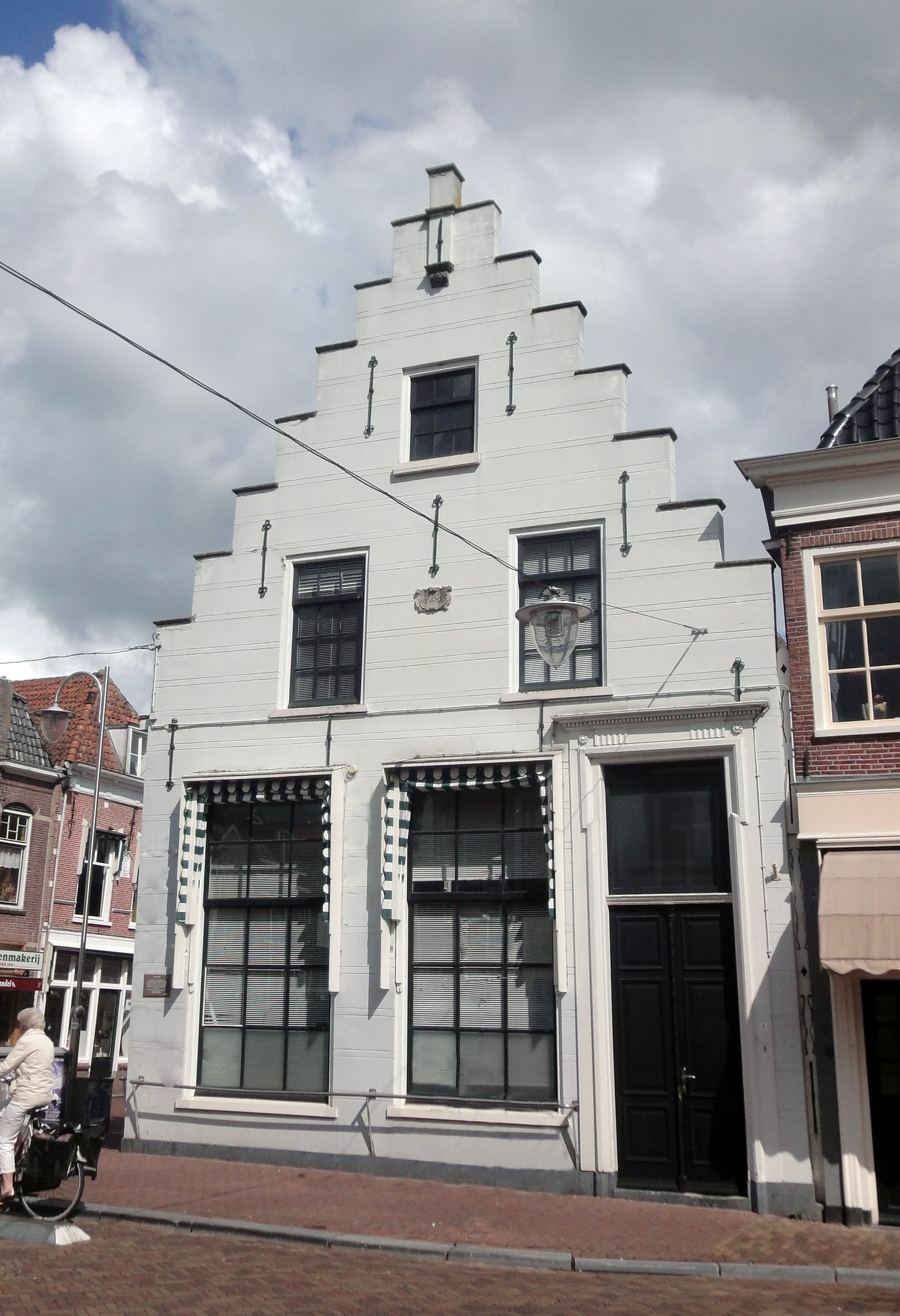 Brandenburg